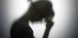 poremecaji licnosti